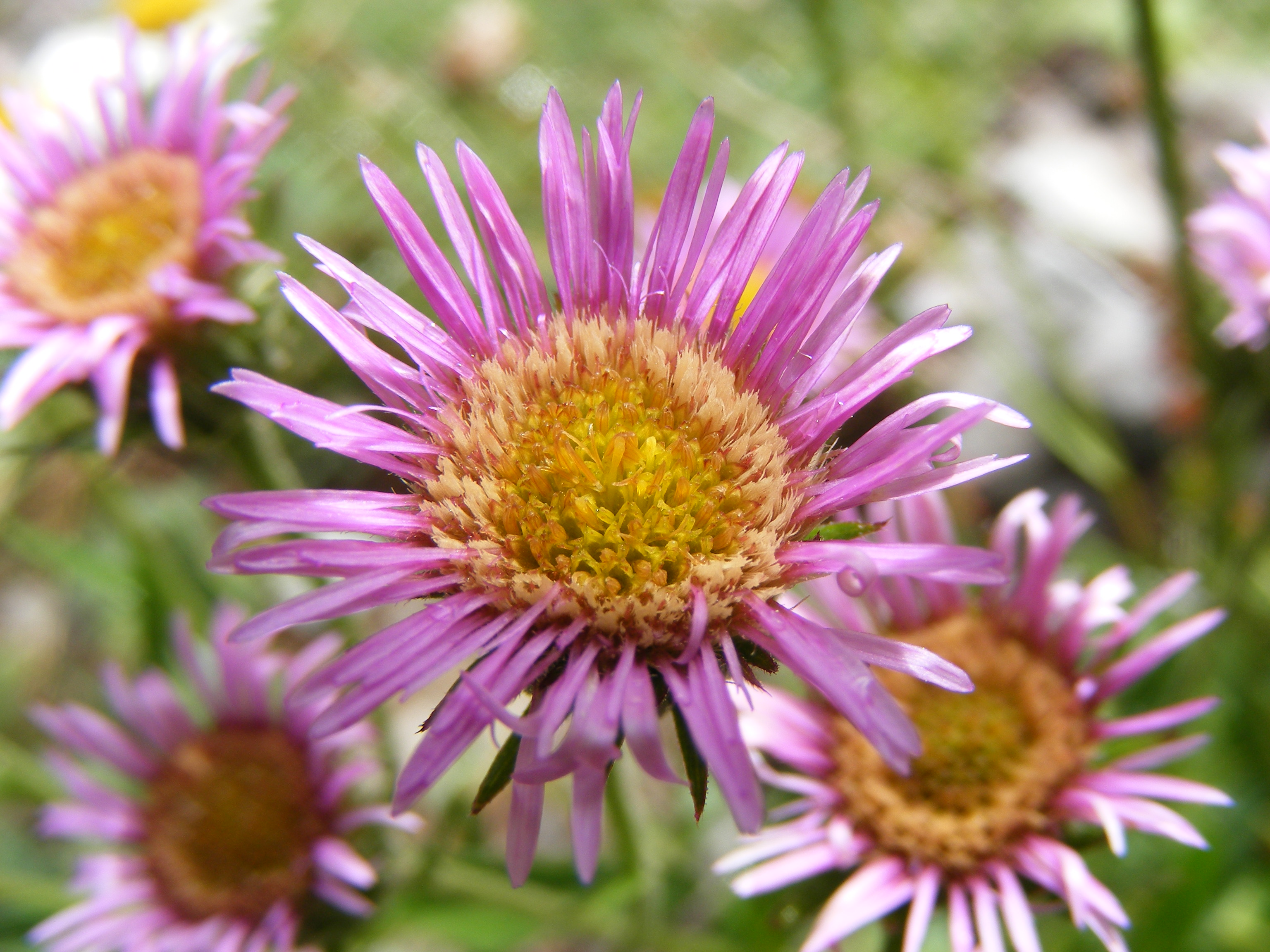 This photo shows Erigeron atticus